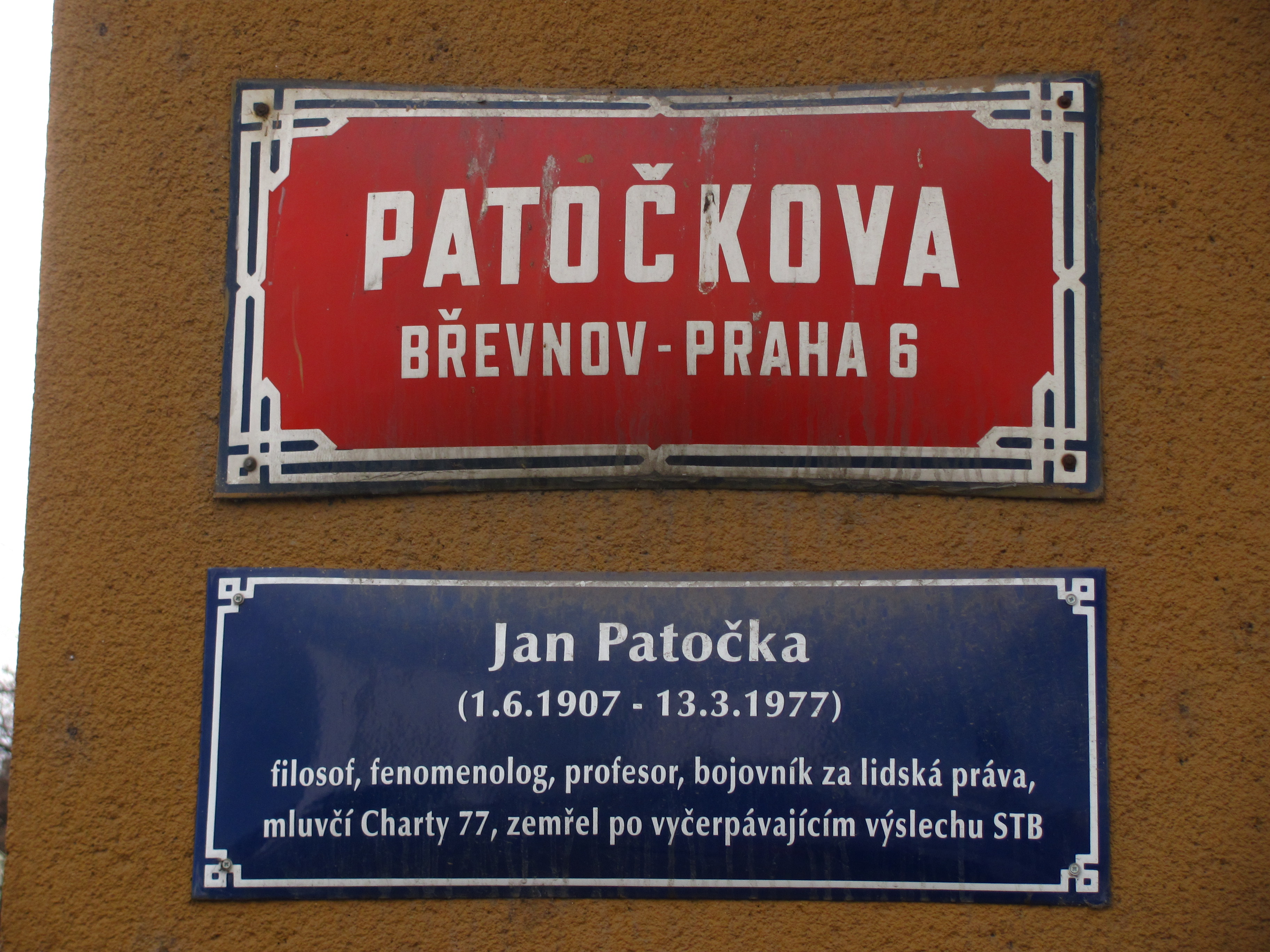 A street in Prague 6 - Břevnov, named after Jan Patocka, Czech philosopher and dissident